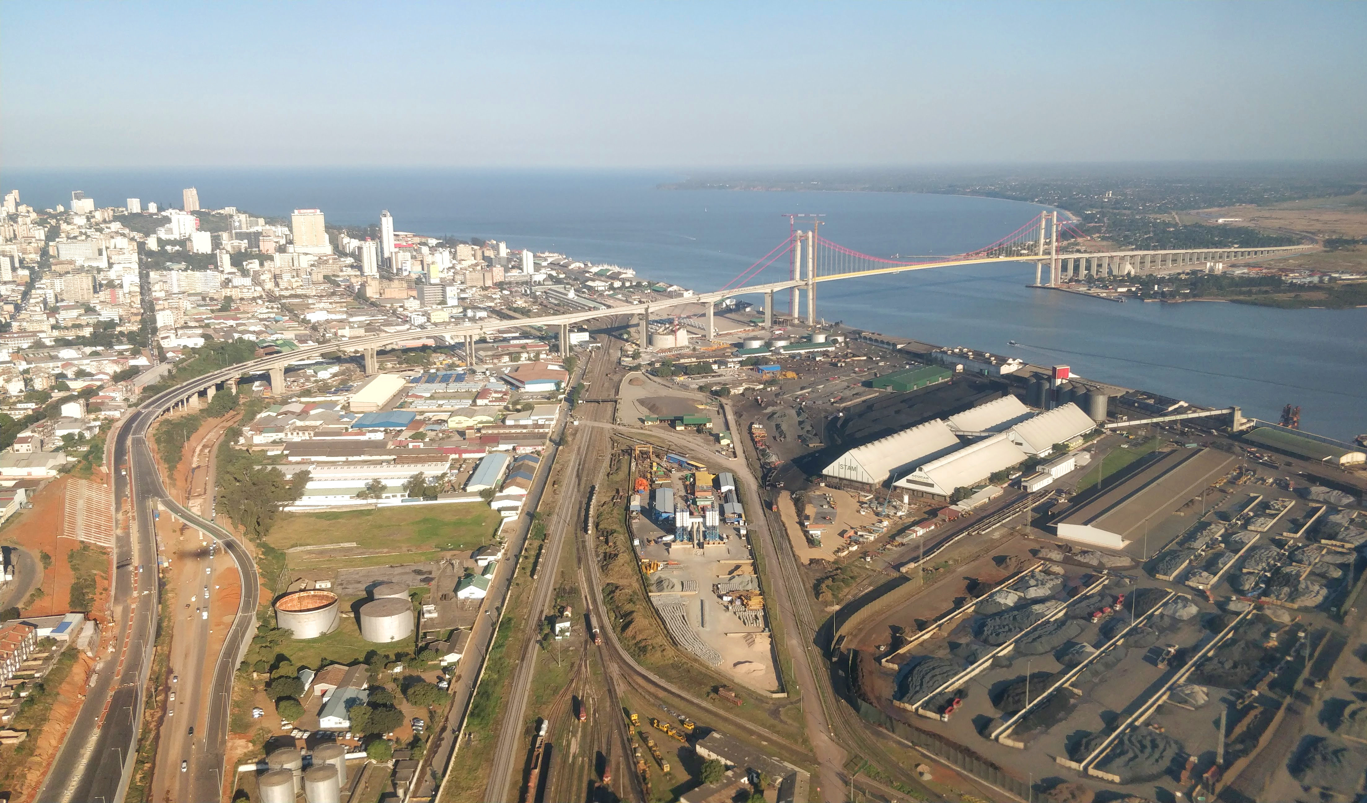 Maputo–Katembe bridge from the norther shore; Maputo, Mozambique